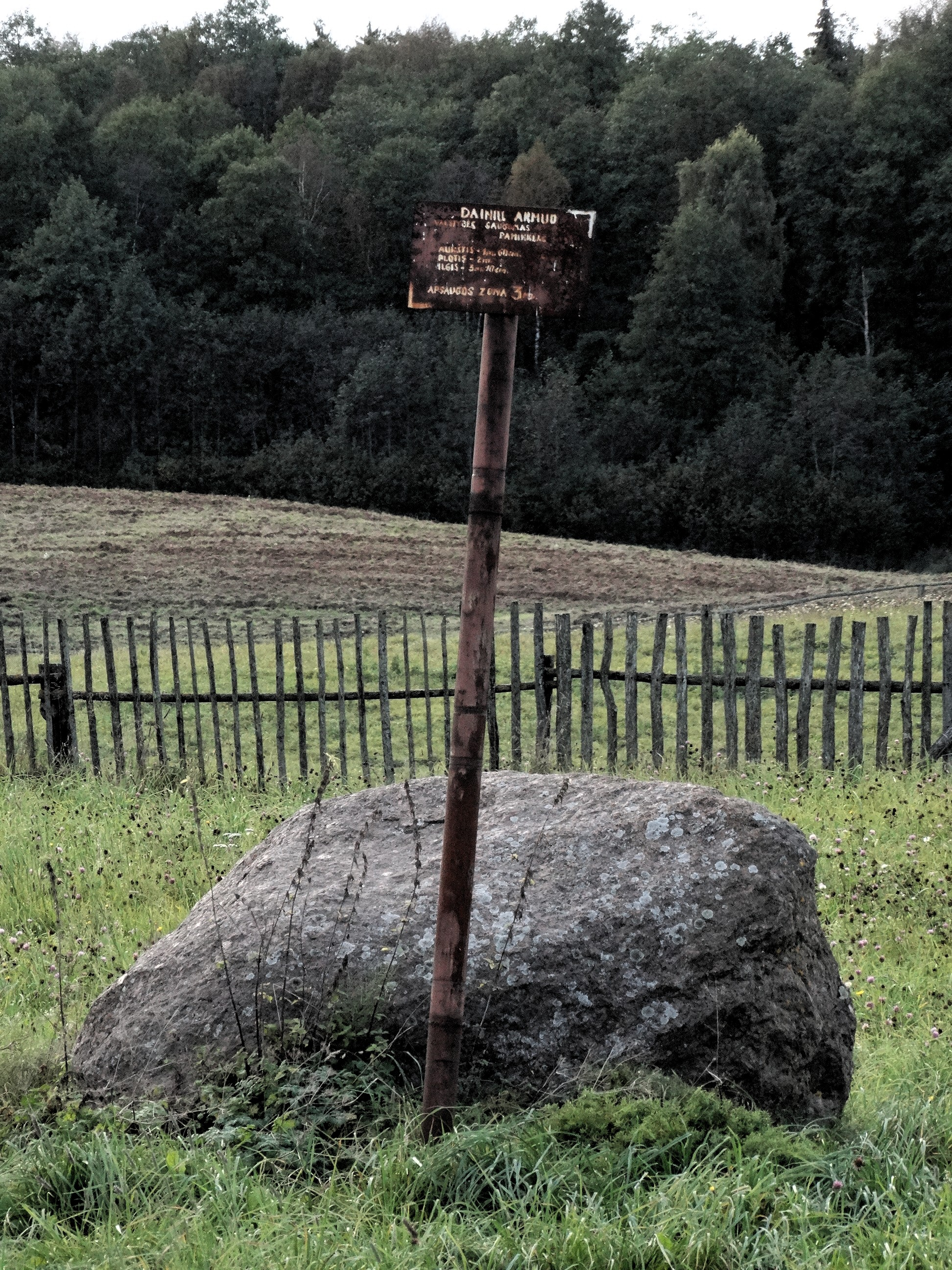 Stone, Dainiai, Kaišiadorys district, Lithuania